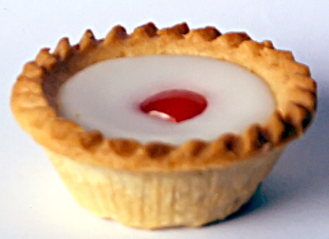 A Bakewell tart. Photo taken in Feb 2006 by Benjamin Richard Wheatley.